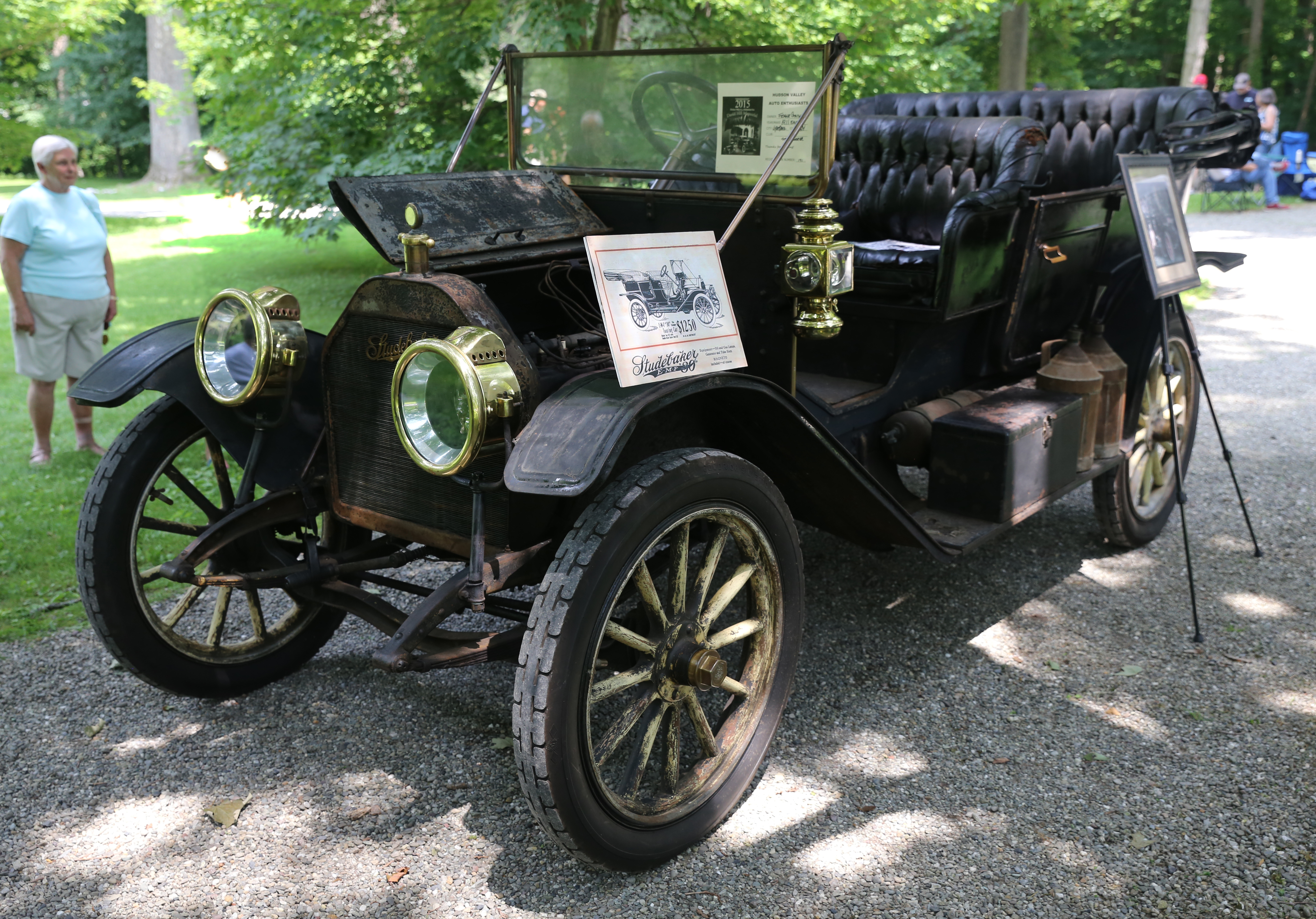 A 1911 E-M-F 30 five-passenger touring car. $1250 when new. E-M-F was owned by Studebaker and were sold carrying both badges. By 1913 they carried Studebaker badges only.